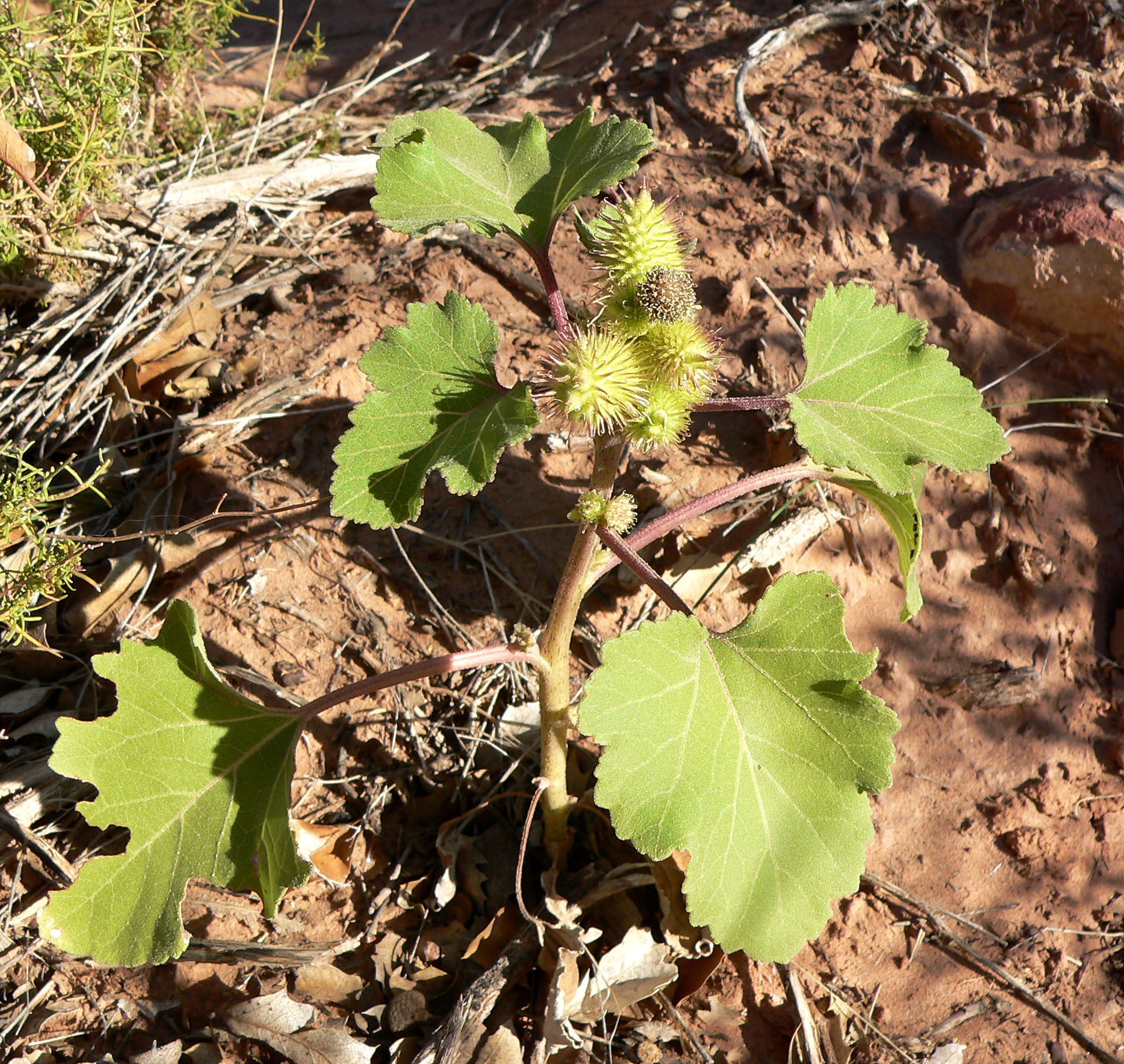 Xanthium strumarium in Pine Creek Canyon, Red Rock Canyon, southern Nevada